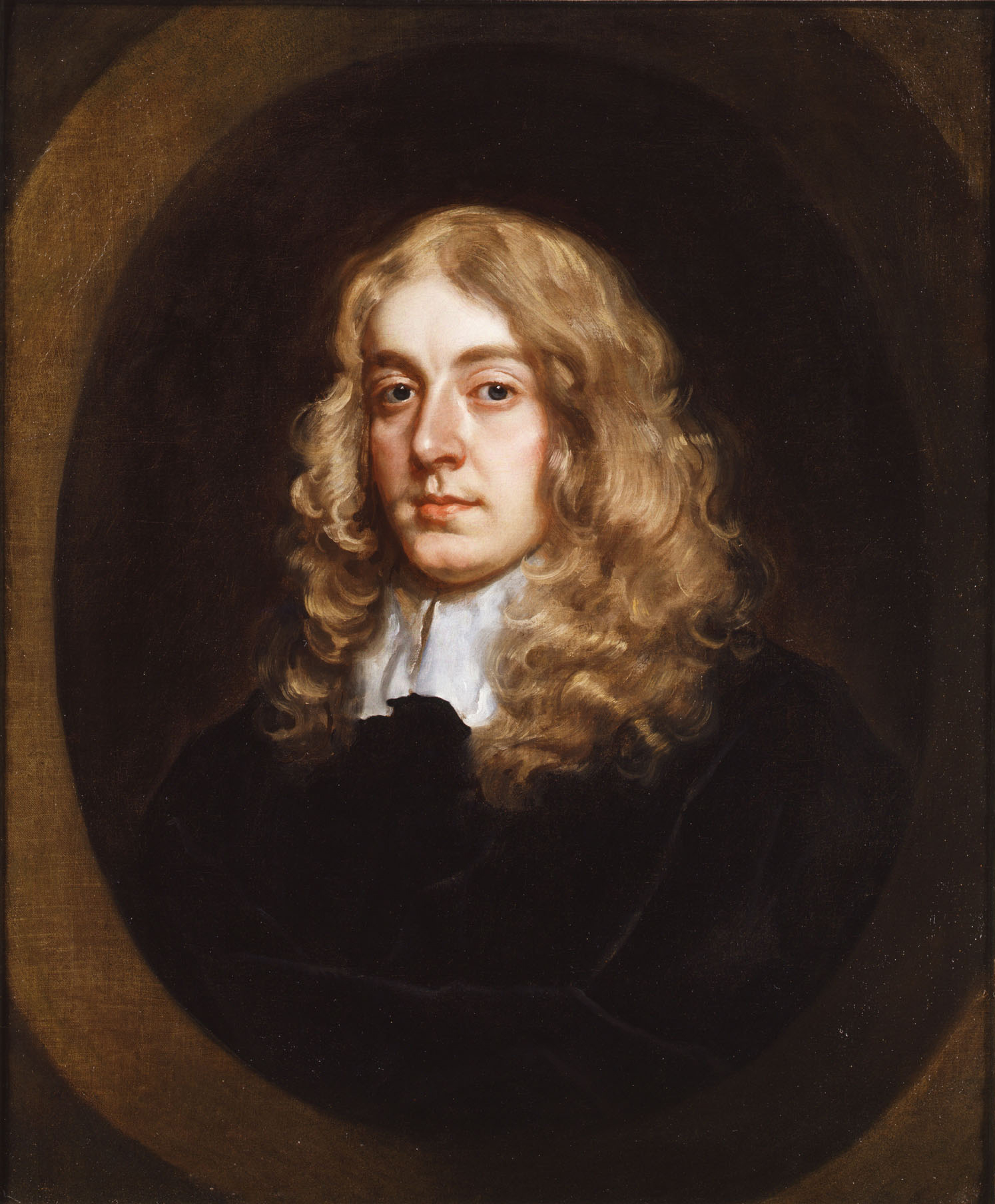 Bust length, wearing a black coat, and white stock, in a painted oval, in a period, carved wood frame, retaining the original silver gilding.